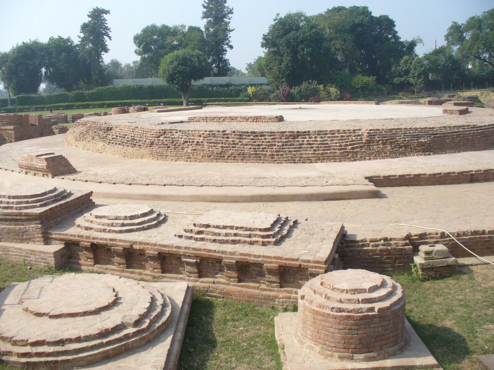 own photography, public domain